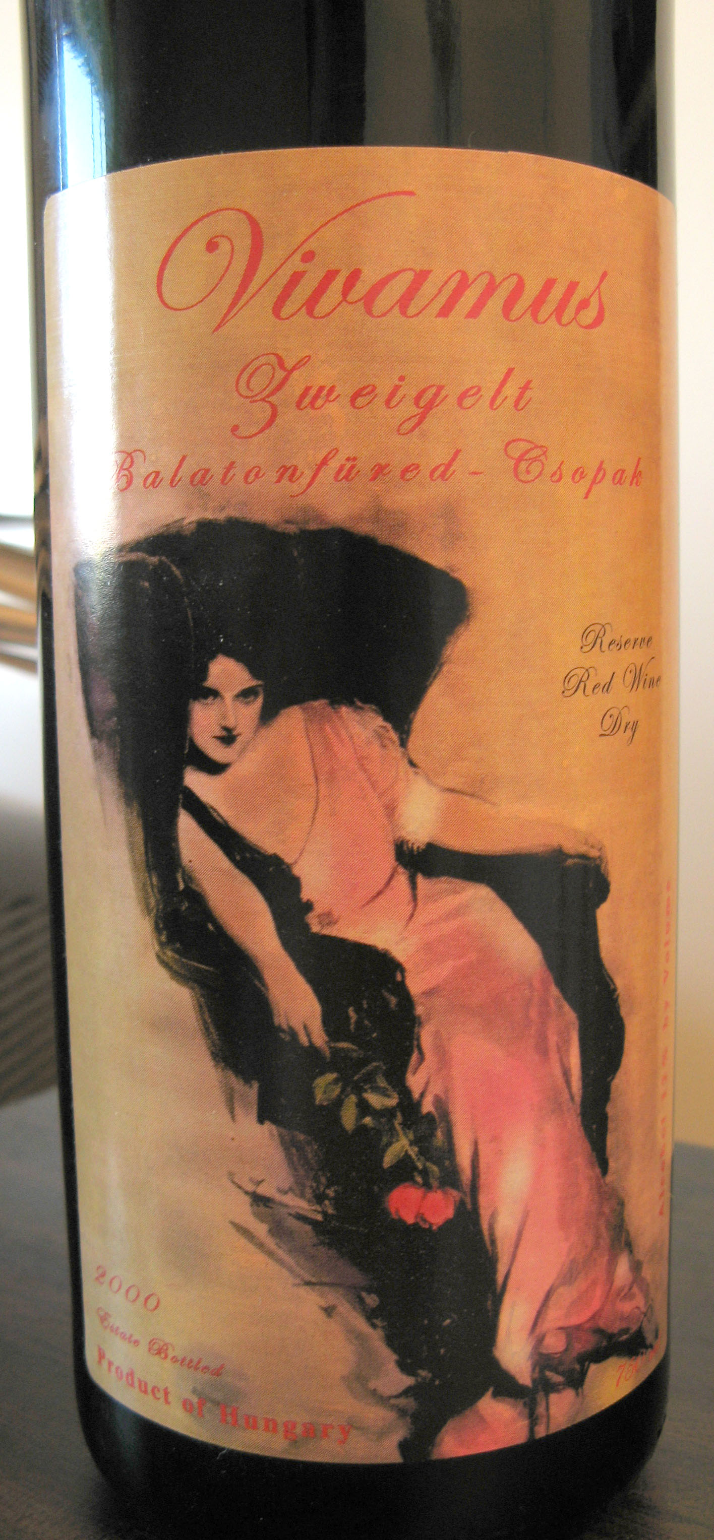 A bottle of Vivamus Zweigelt 2000 from Balatonfüred, Hungary